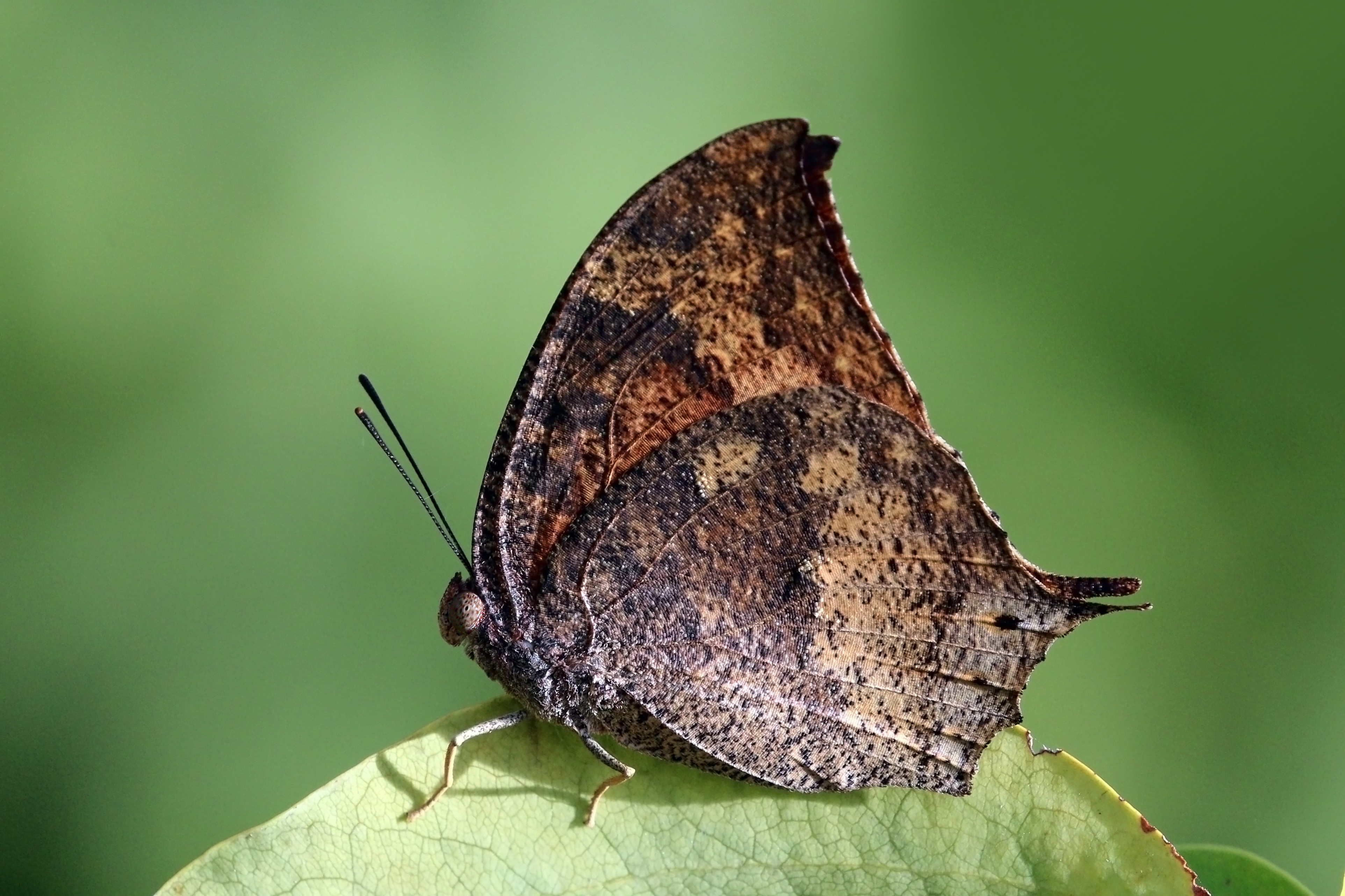 Cuban red leaf (Anaea troglodyta cubana), Grand Cayman